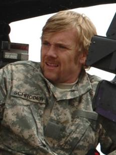 Cropped version of public domain image found at Image:RickySchrodertexas.jpg. Original description: Veteran actor Ricky Schroder and son Luke (right), take the pilot and co-pilot seat in the Apache AH-64 helicopter during a visit to Fort Hood, Texas, May 1. Before boarding the craft and getting a look at a working Apache, Schroder and his son 'flew' the Apache simulator. Photo by Pvt. Kelly Welch, 1st BCT, 1st Cav. Div. Public Affairs